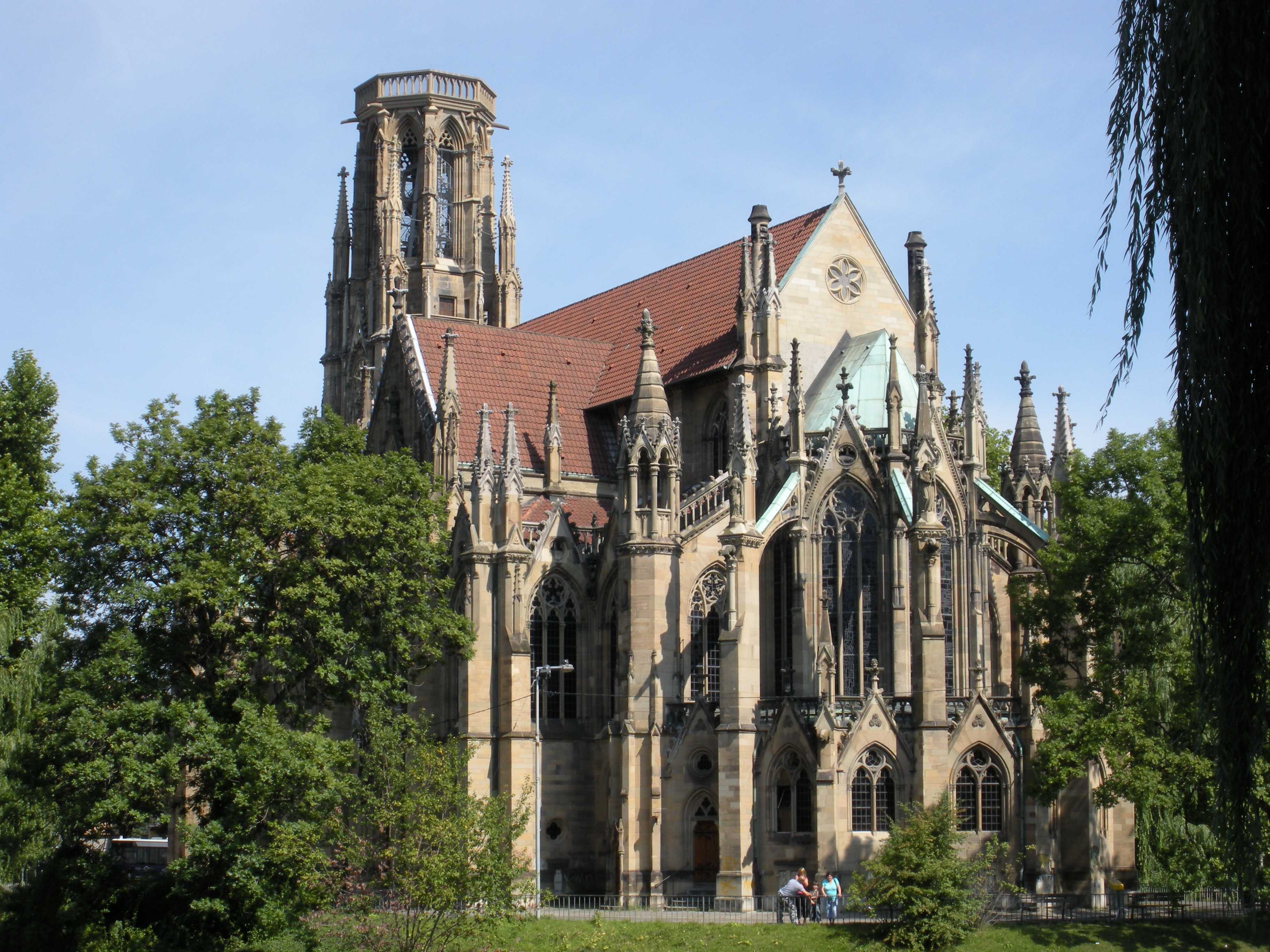 Protestant Church of St. John (Johanneskirche) in Stuttgart